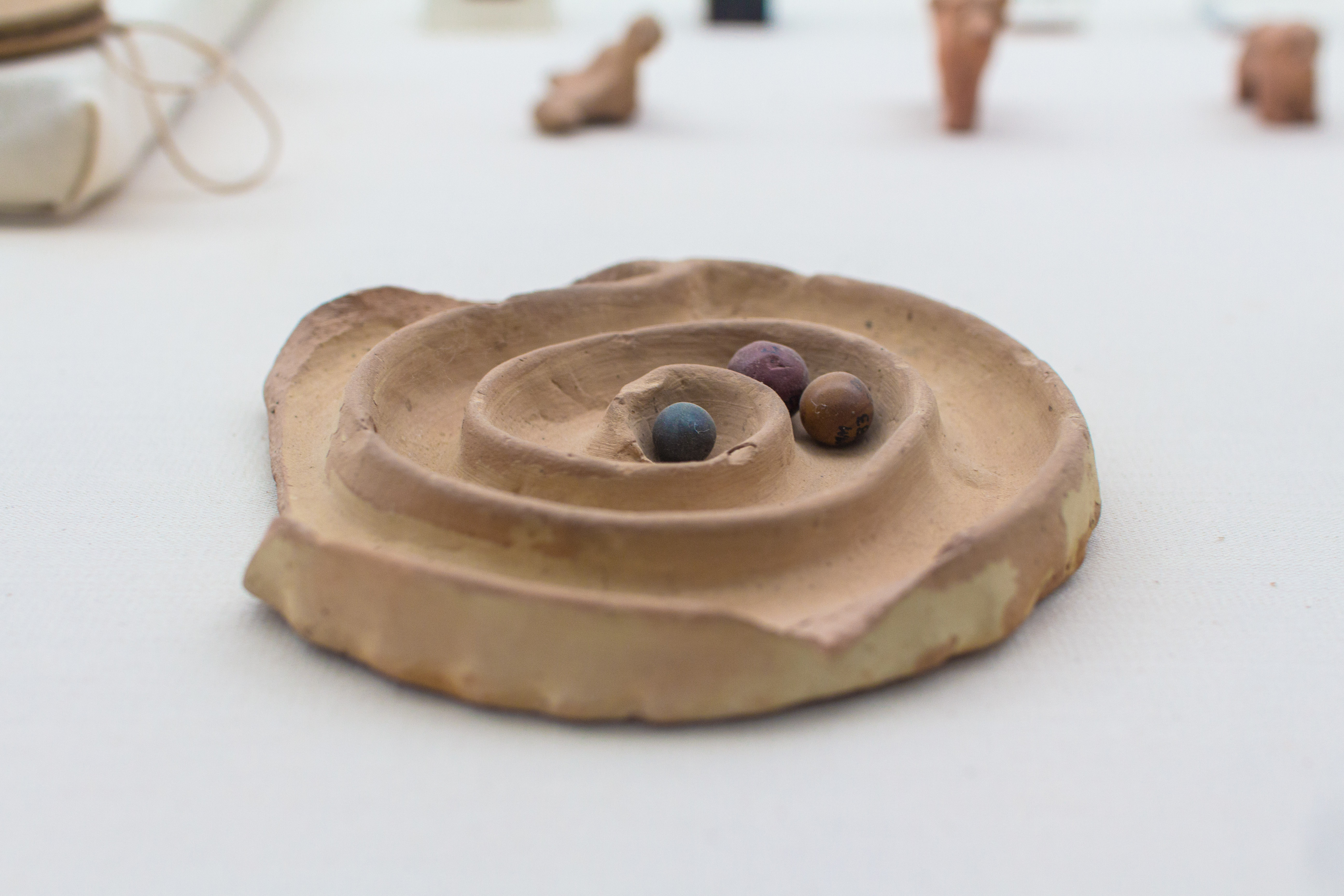 Moenjodaro This is a photo of a monument in Pakistan identified as the SD-41